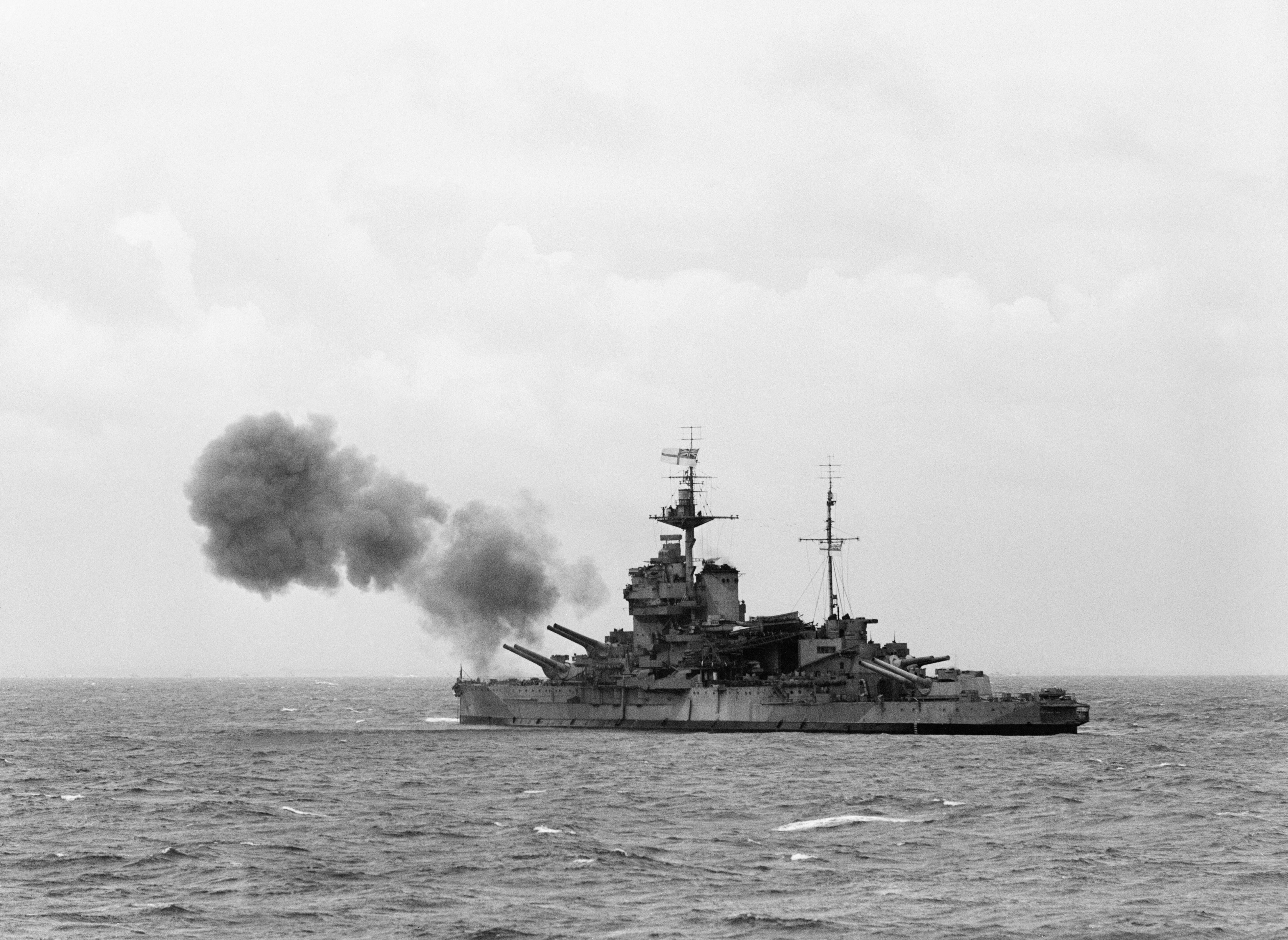 D-day - British Forces during the Invasion of Normandy 6 June 1944 HMS WARSPITE, part of Bombarding Force 'D' off Le Havre, shelling German gun batteries in support of the landings on Sword area, 6 June 1944. The photo was taken from the frigate HMS HOLMES which formed part of the escort group.